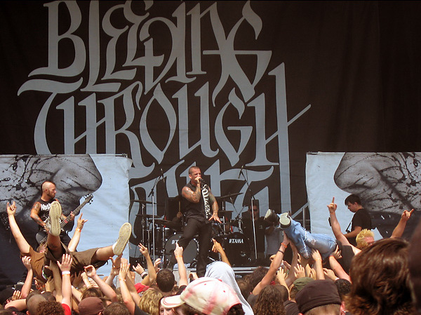 Metal band Bleeding Through rocking the crowd of Alpine Valley in East Troy, Wi on Ozzfest 2006. July 22nd 2006